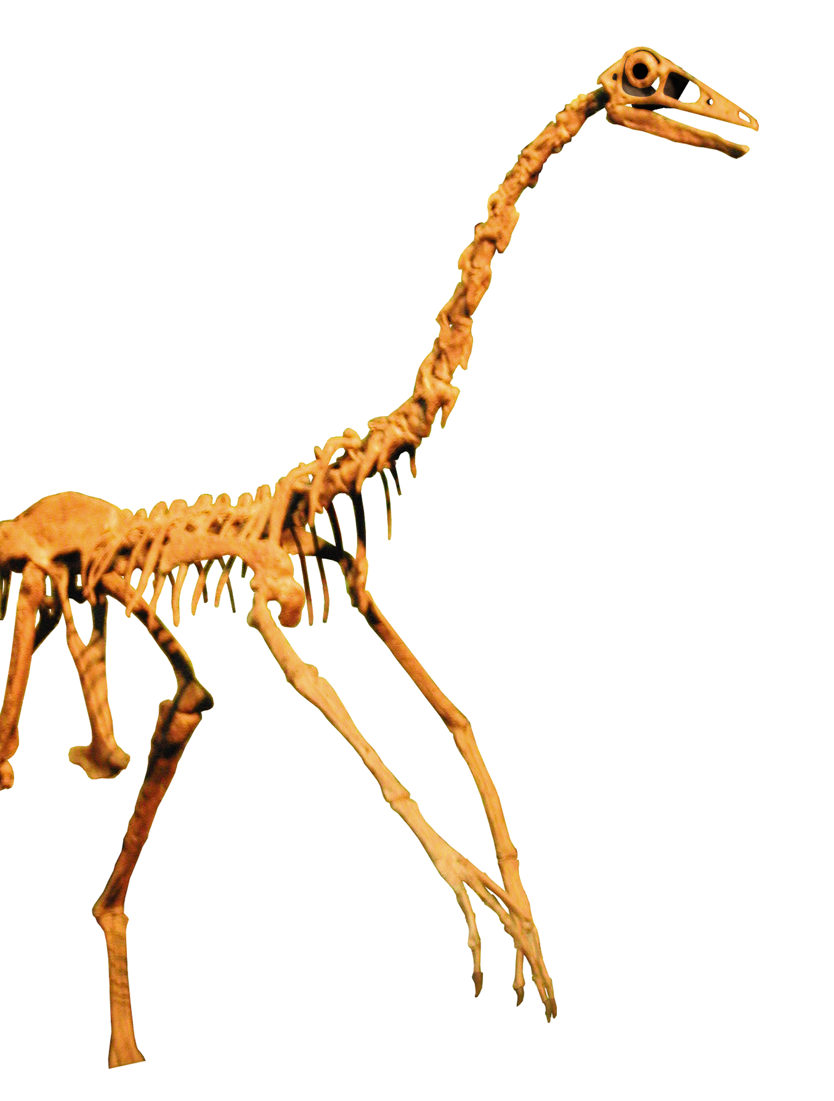 The ostrich-like Ornithomimus Edmontonicus from the old dinosaur museum display at the Royal Ontario Museum, Toronto.